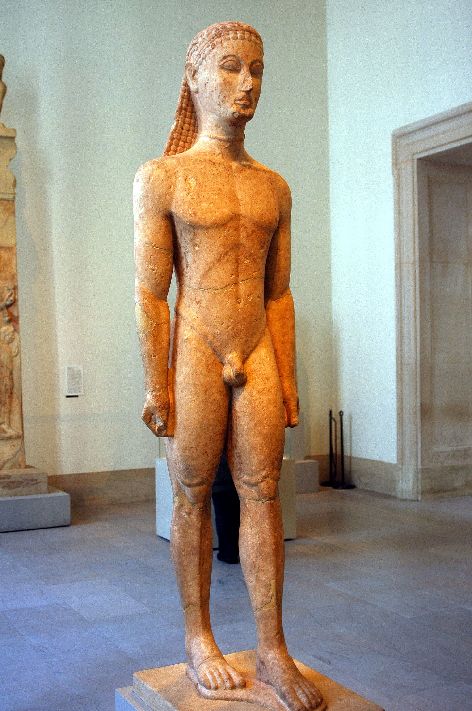 Marble statue of a kouros (youth), ca. 590–580 B.C. Greek, Attic Marble, Naxian; H. without plinth 76 5/8 in. (194.6 cm); H. of head 12 in. (30.5 cm); length of face 8 7/8 in. (22.6 cm); shoulder width 20 5/16 in. (51.6 cm) The Metropolitan Museum of Art, New York, Fletcher Fund, 1932 (32.11.1) View at the Metropolitan Museum of Art website Wikipedia Loves Art at the Metropolitan Museum of Art This photo of item # 32.11.1 at the Metropolitan Museum of Art was contributed under the team name "Futons_of_Rock" as part of the Wikipedia Loves Art project in February 2009. Metropolitan Museum of Art The original photograph on Flickr was taken by AlkaliSoaps—please add a comment to the original Flickr page whenever a use has been made on Wikipedia or another project. Project galleries on Flickr: this institution, this team